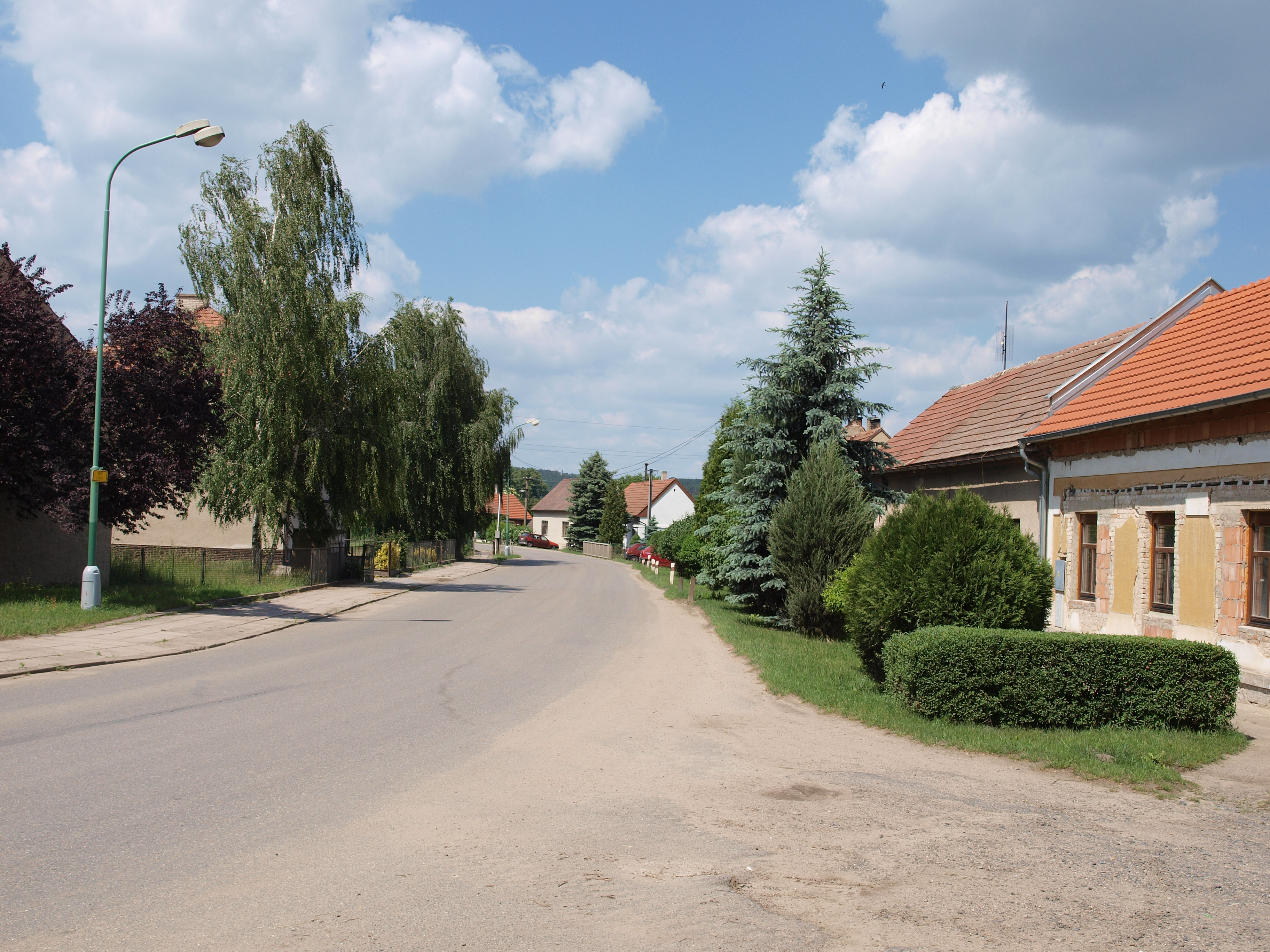 View at north from square, Stará Lysá, Central Bohemian Region